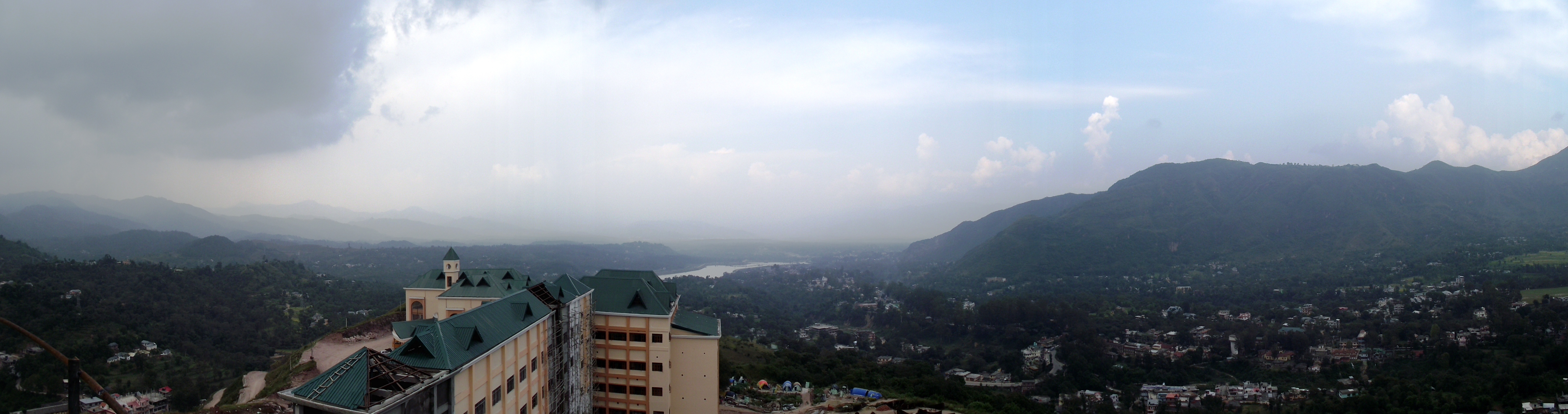 Panorama View of Sundernagar